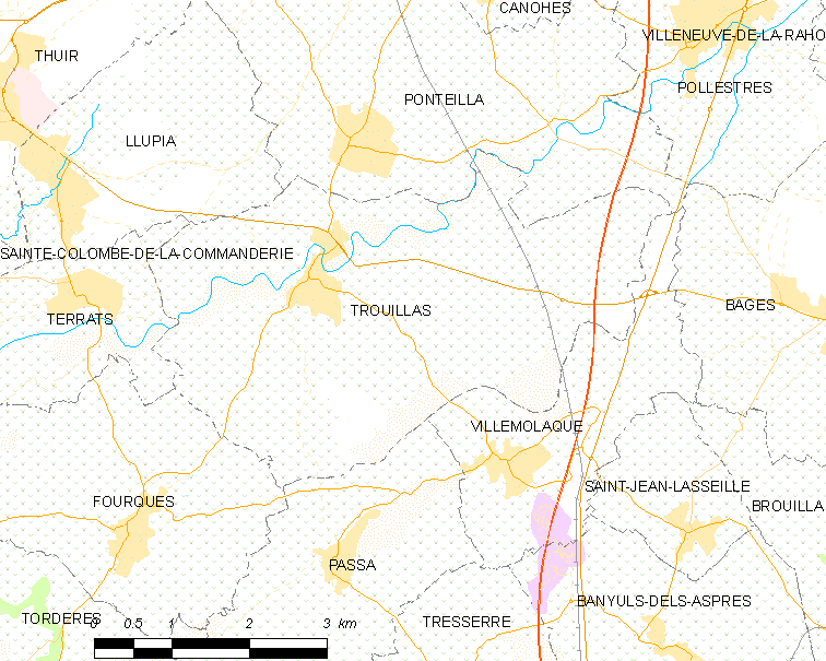 Map of French municipality